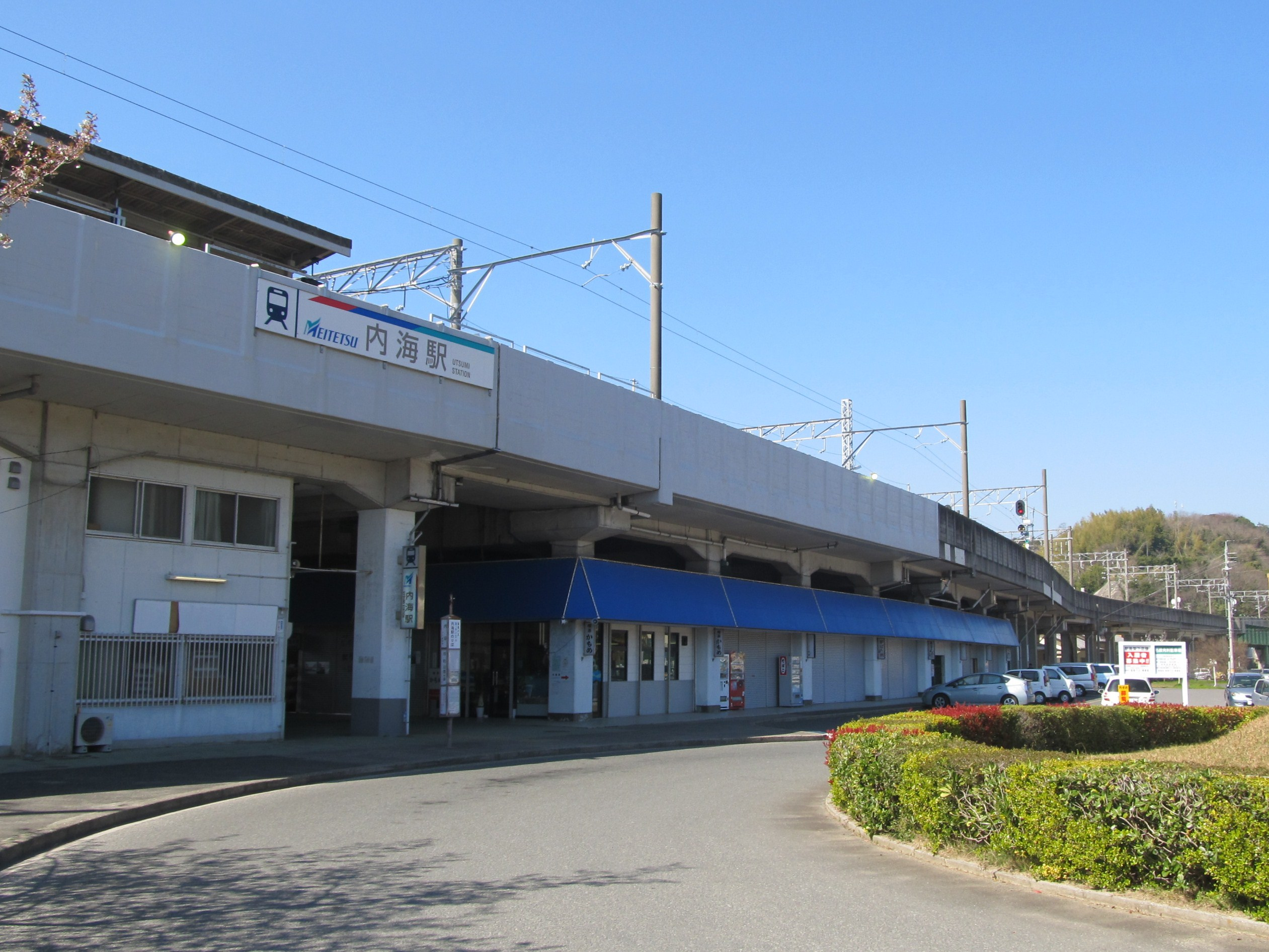 Nagoya Railroad Chita Line Utsumi Station